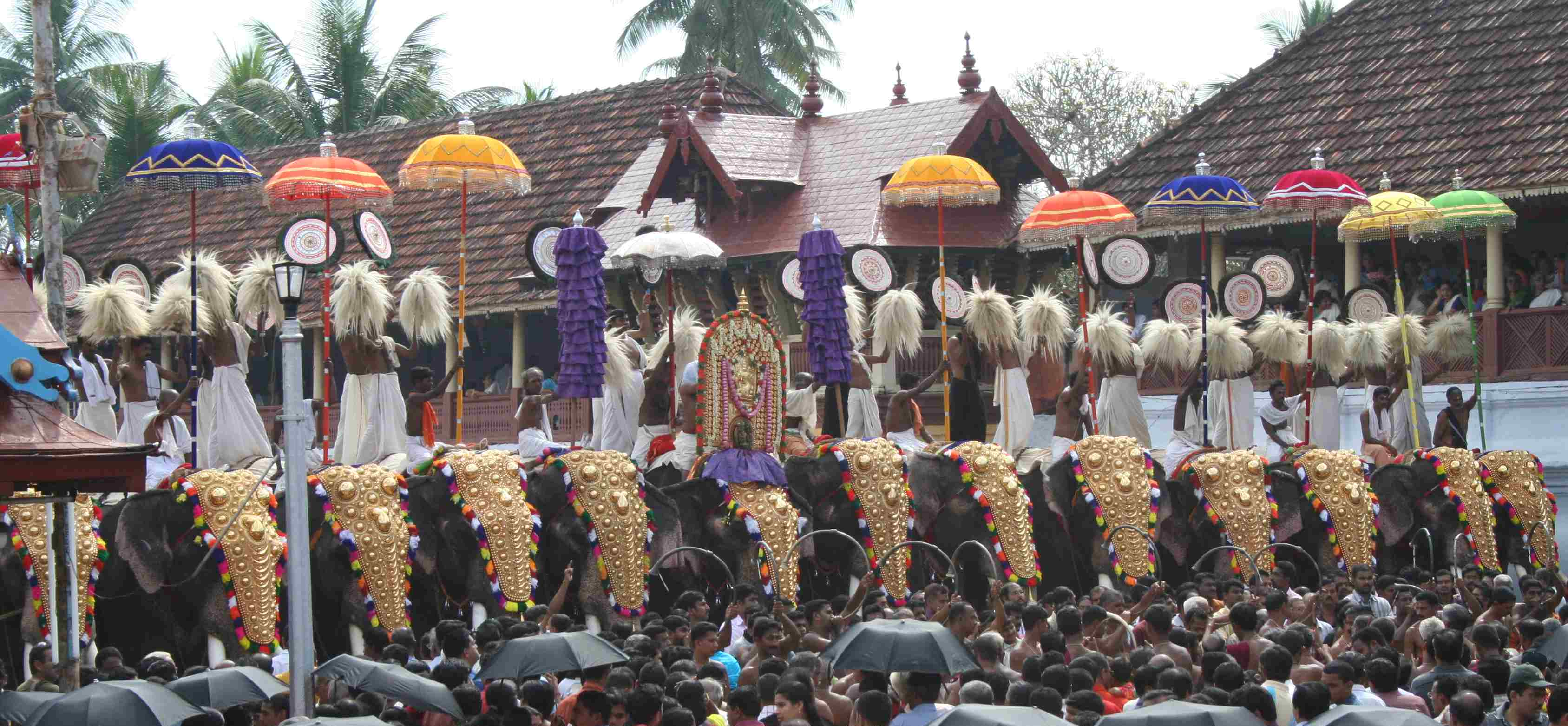 Caparisoned elephants during Sree Poornathrayesa temple festival, Thrippunithura, Kerala, South India.